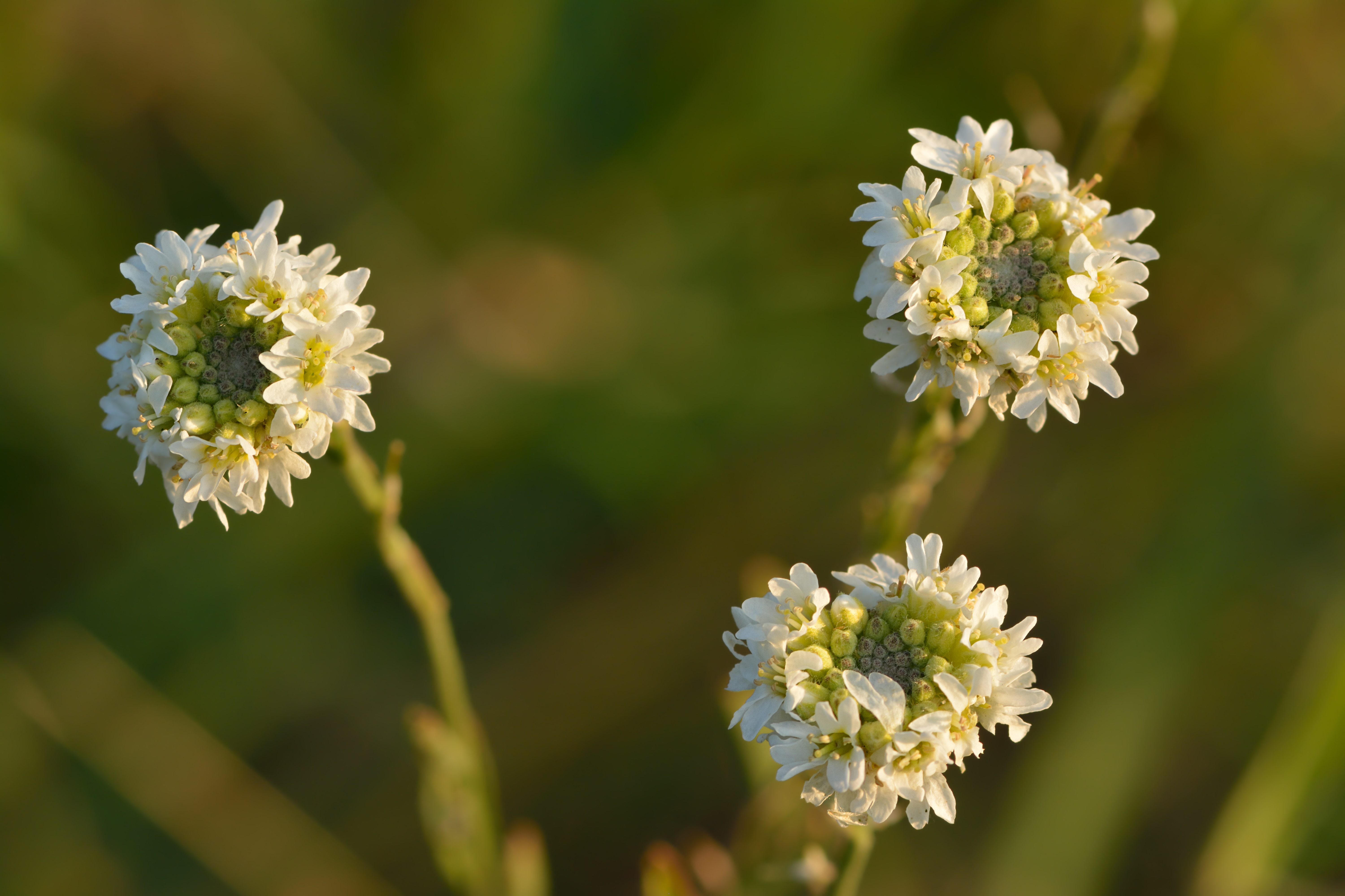 Berteroa incana - hoary alyssum in Valingu, Northwestern Estonia.